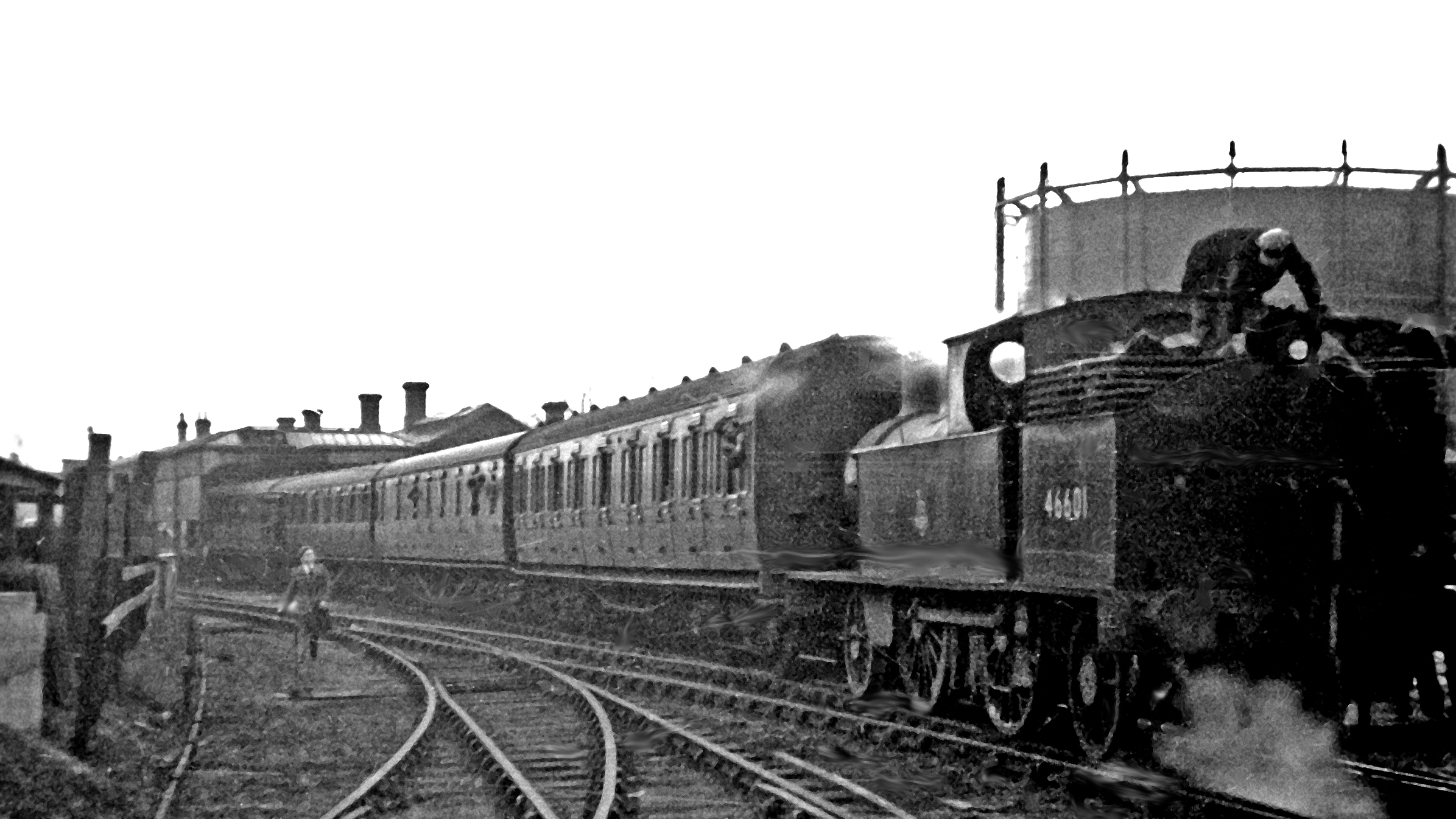 Branch train to Cheddington at Aylesbury (High St.) on the Last Day. View SW, towards the buffer-stops: ex-LNW terminus of the branch from Cheddington. On the Last Day of passenger services, Saturday 31/1/53 before formal closure on 2/2/53, one of the last trains back to Cheddington is headed by ex-LNW Webb (1890 design) 5'6" 1P 2-4-2T No. 46601, which survived until 10/53.